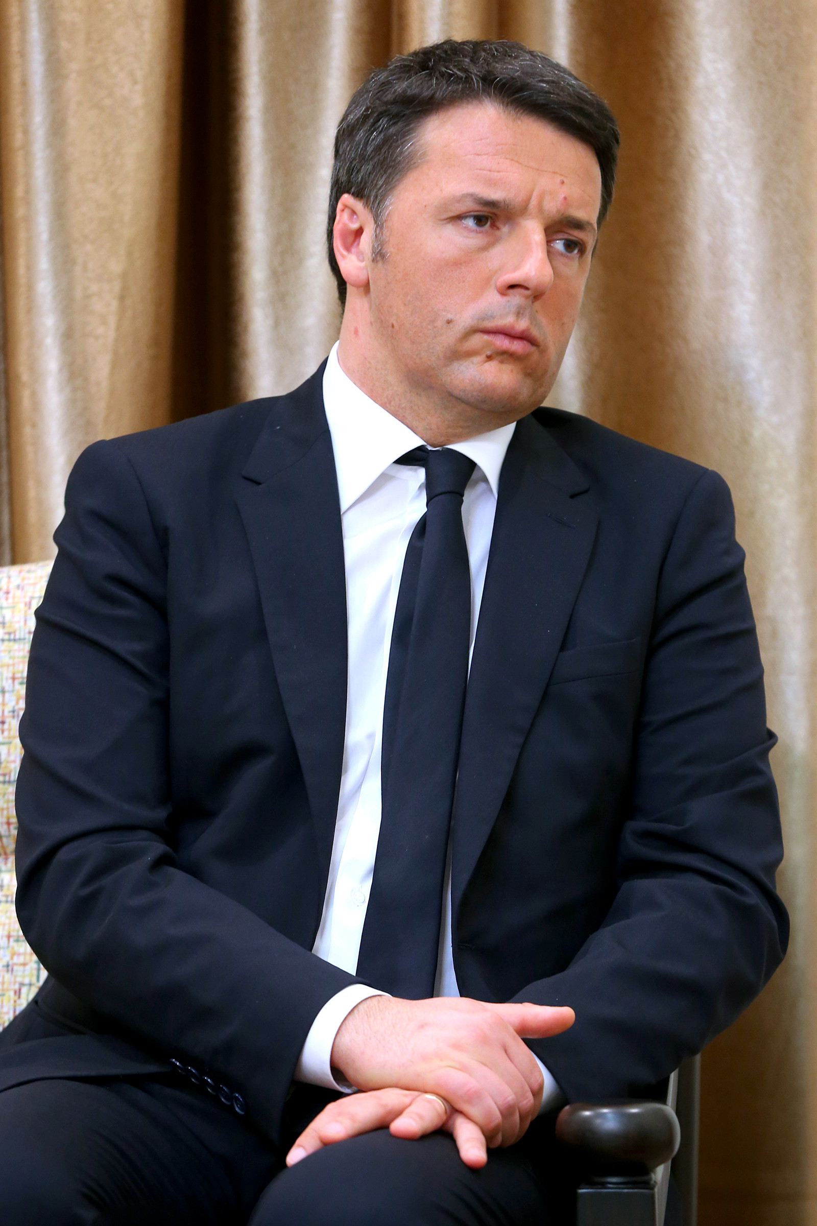 Matteo Renzi, the Prime Minister of Italy and his entourage met with Ali Khamenei, the Supreme Leader of Iran.